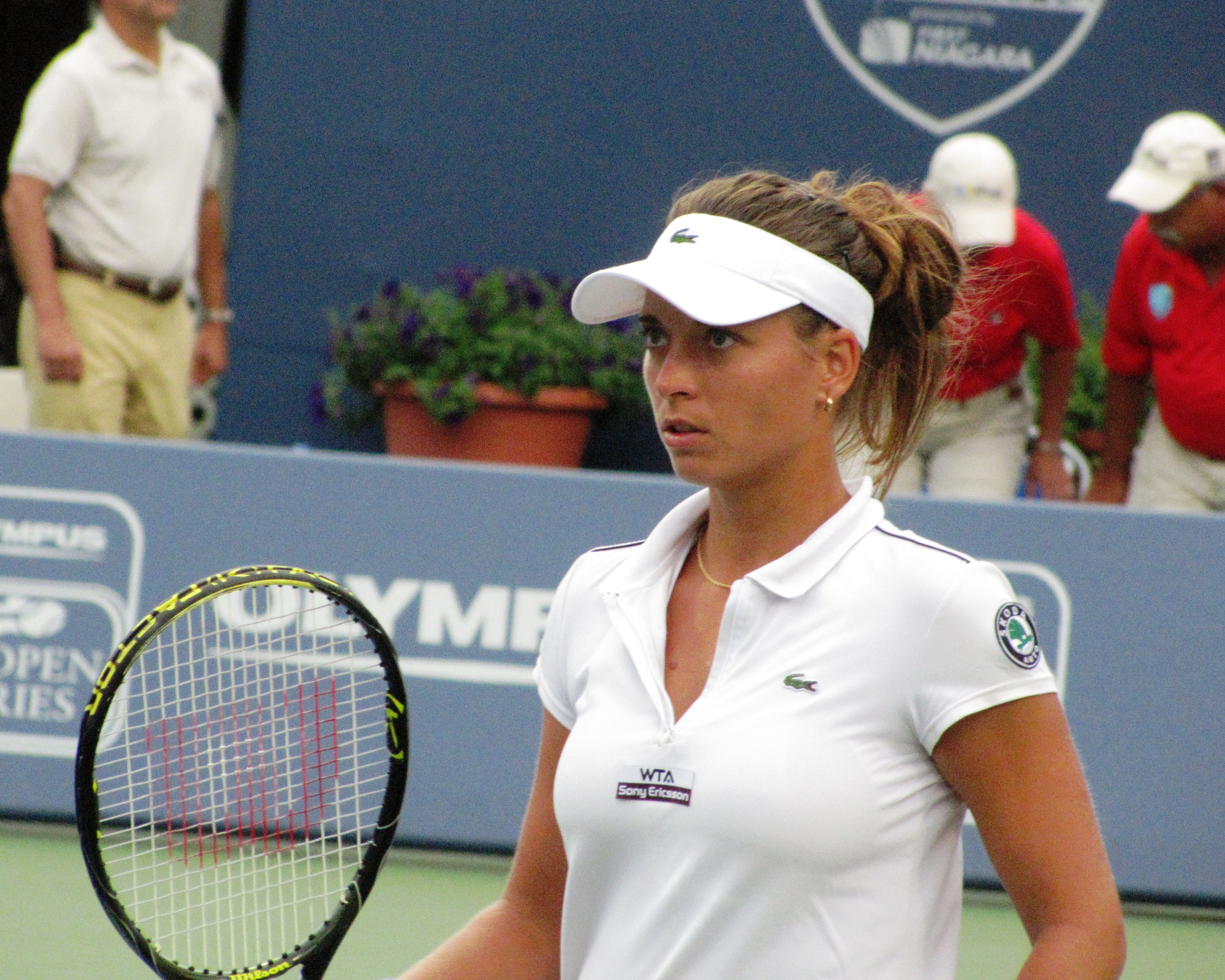 Petra Cetkovská at the New Haven Open 27 August 2011